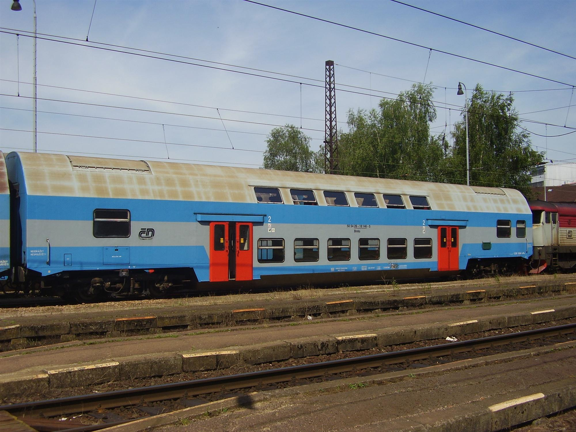 Rail car Bmto ČD in train station Čerčany